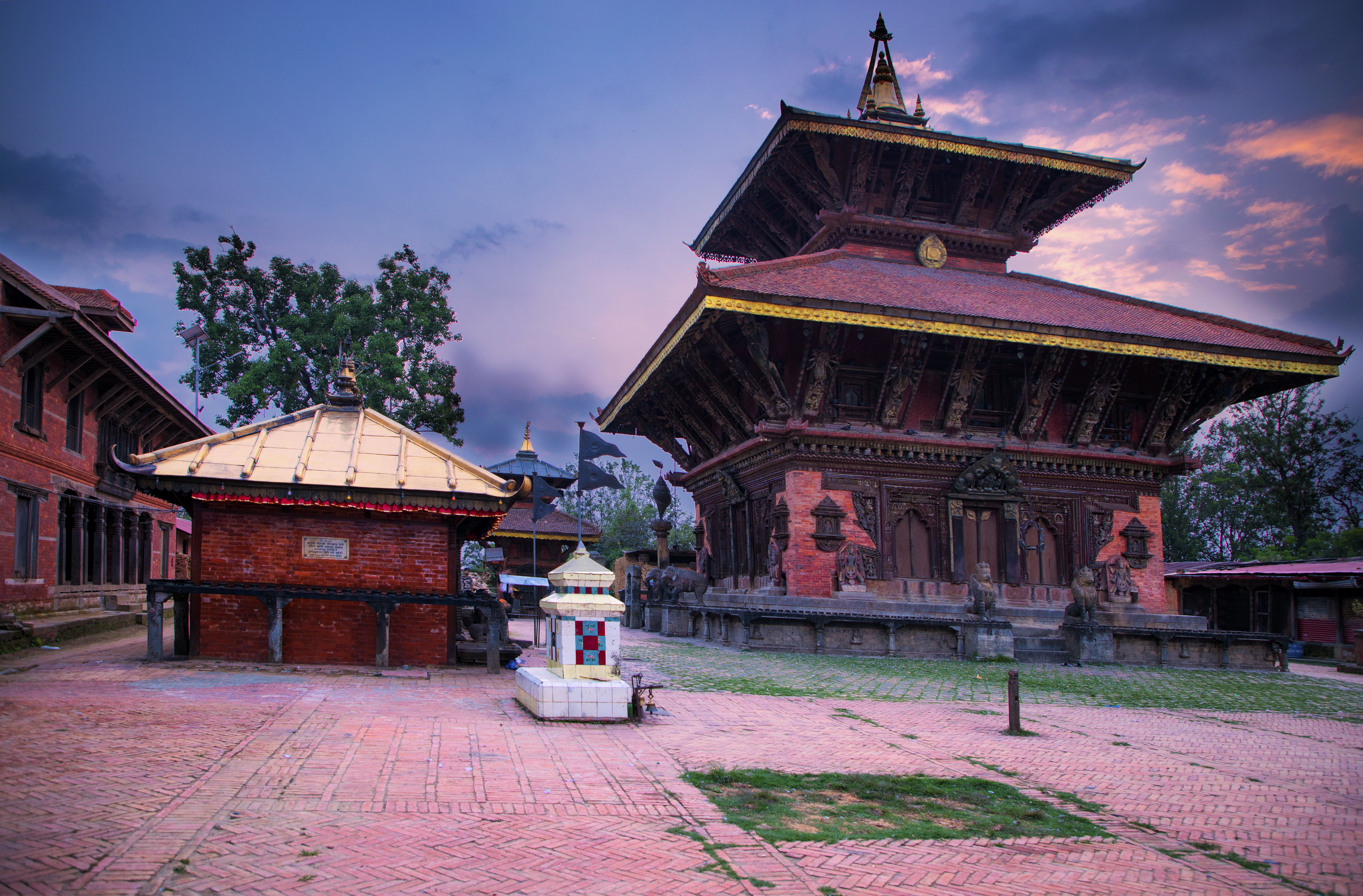 view of Changunarayan just before sunset